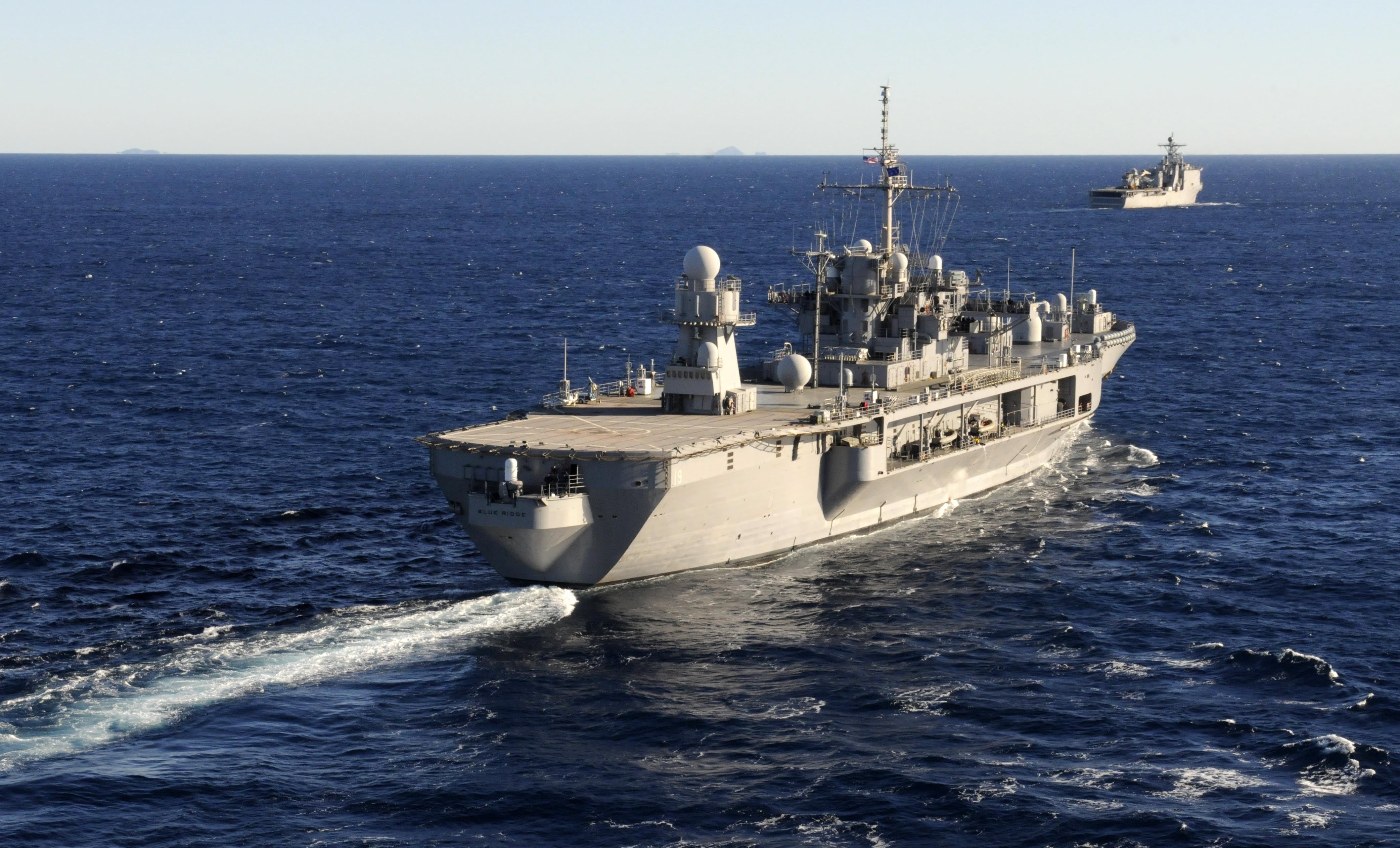 CORAL SEA (July 22, 2011) The U.S. 7th Fleet command ship USS Blue Ridge (LCC 19) transits alongside the amphibious dock landing ship USS Germantown (LSD 42). Blue Ridge and Germantown are in the Coral Sea participating in Talisman Sabre 2011, a bilateral exercise intended to enhance planning and readiness between the U.S. and Australian forces. (U.S. Navy photo by Mass Communication Specialist 3rd Class Mel Orr/Released)